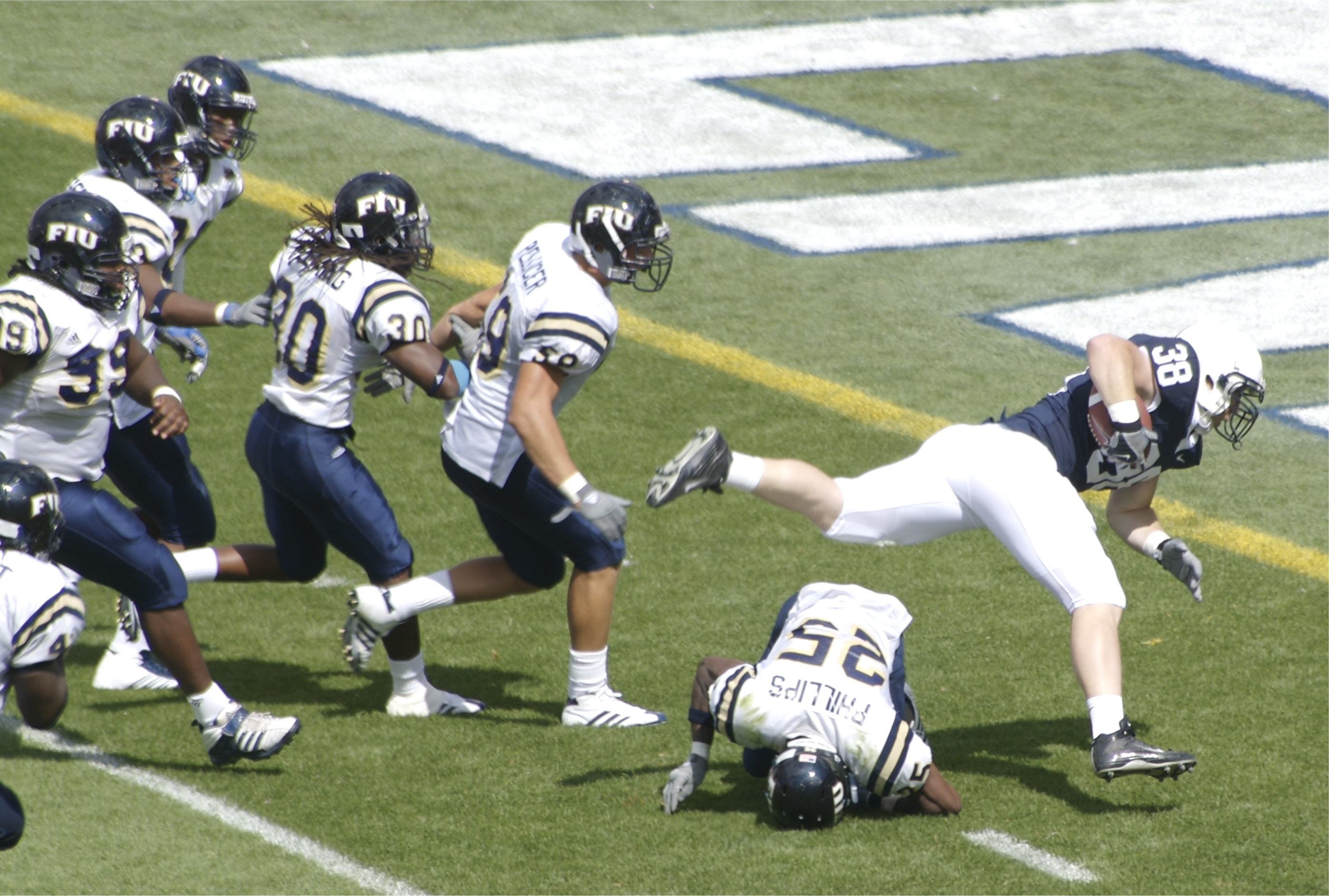 Penn State fullback Dan Lawlor hurdles a Florida International University defender to score a touchdown in the Penn State Nittany Lions' 2007 season opener.